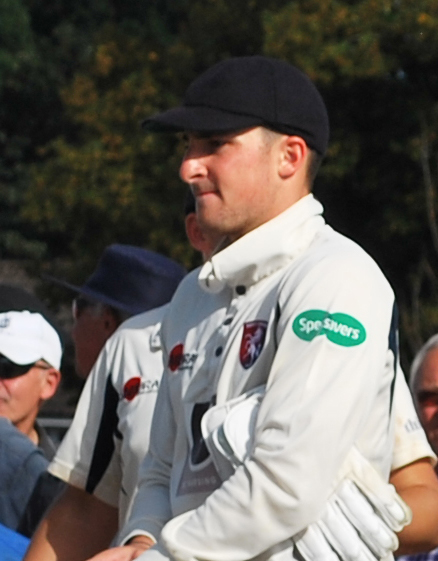 Callum Jackson whilst with Kent at the Kent County Cricket Ground, Beckenham in September 2016